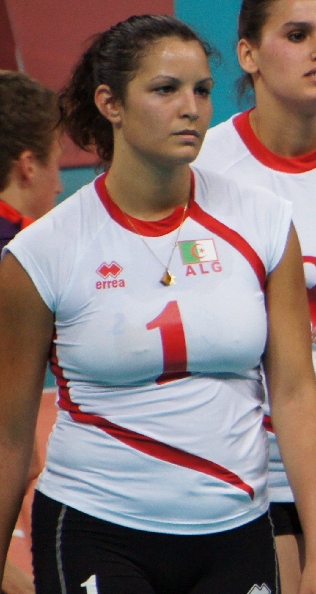 Algerian volleyball player Sehryne Hennaoui.